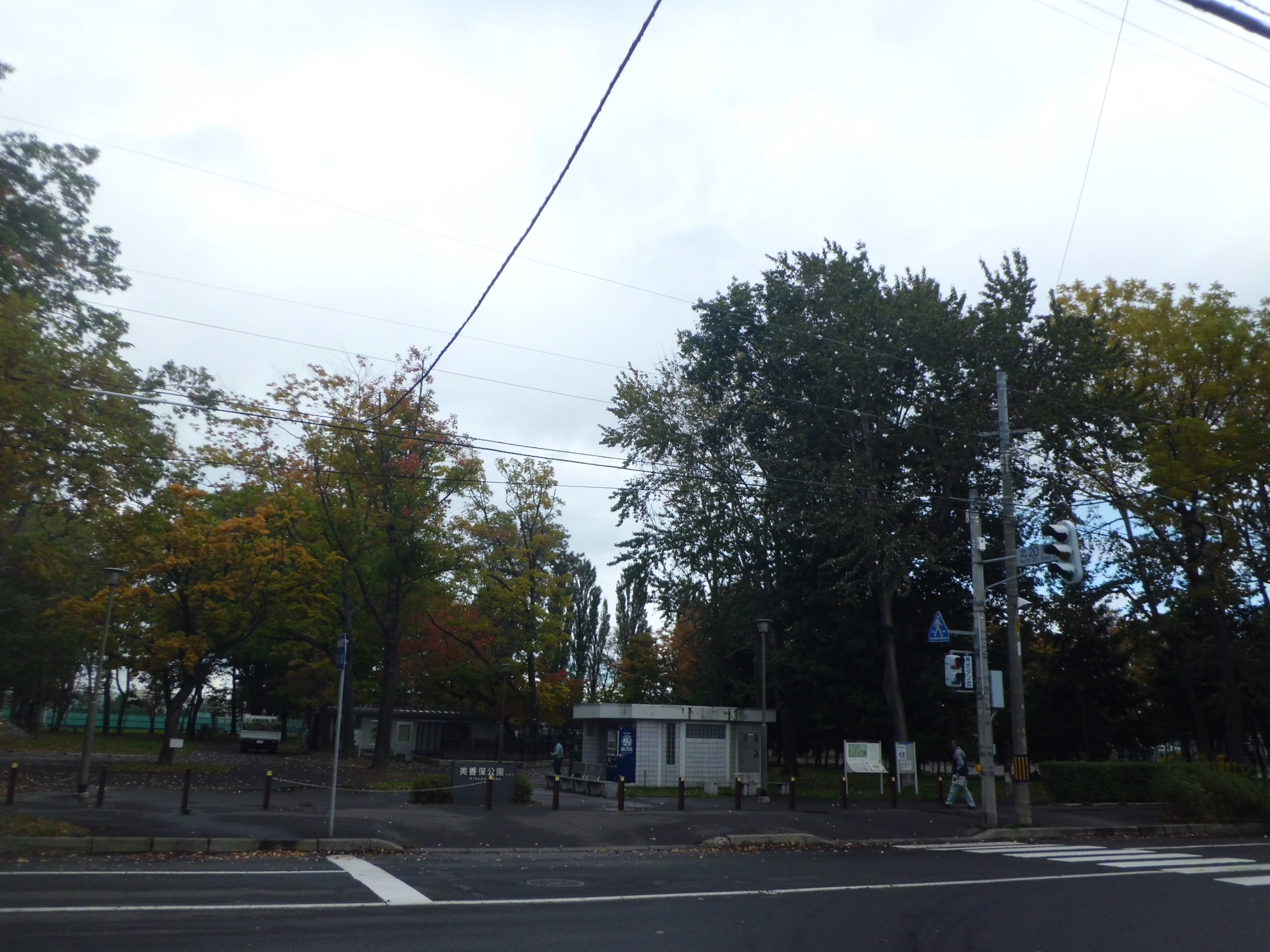 Mikaho Park